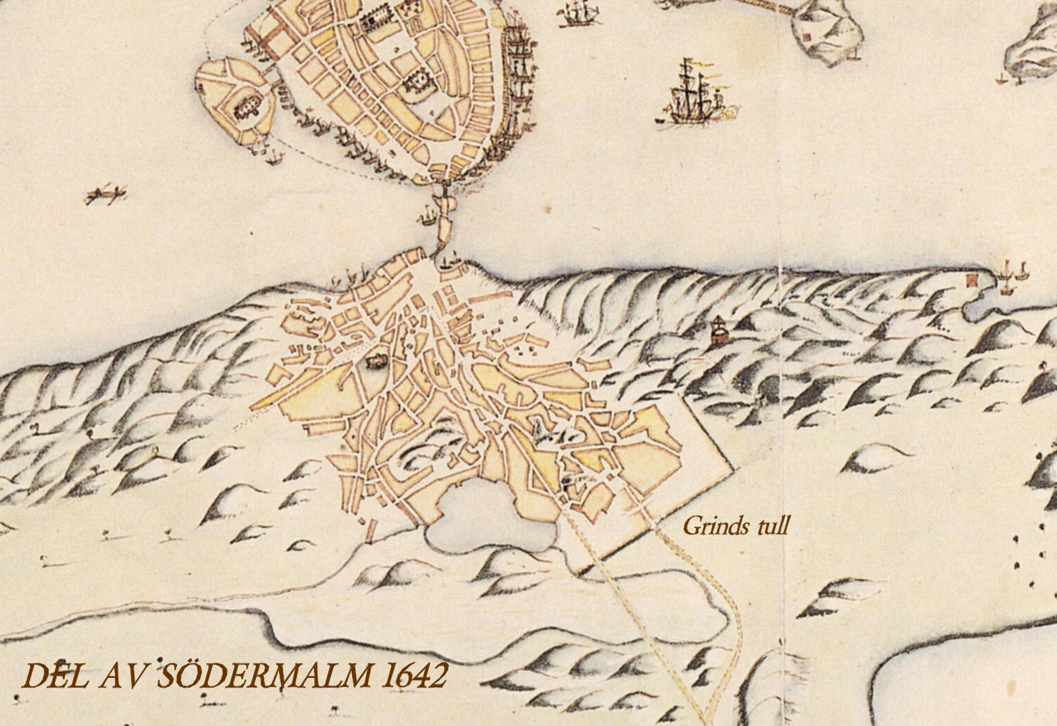 Part of Historical map showing Stockholm, in the 17th century. The map is produced 1640 - 1642.